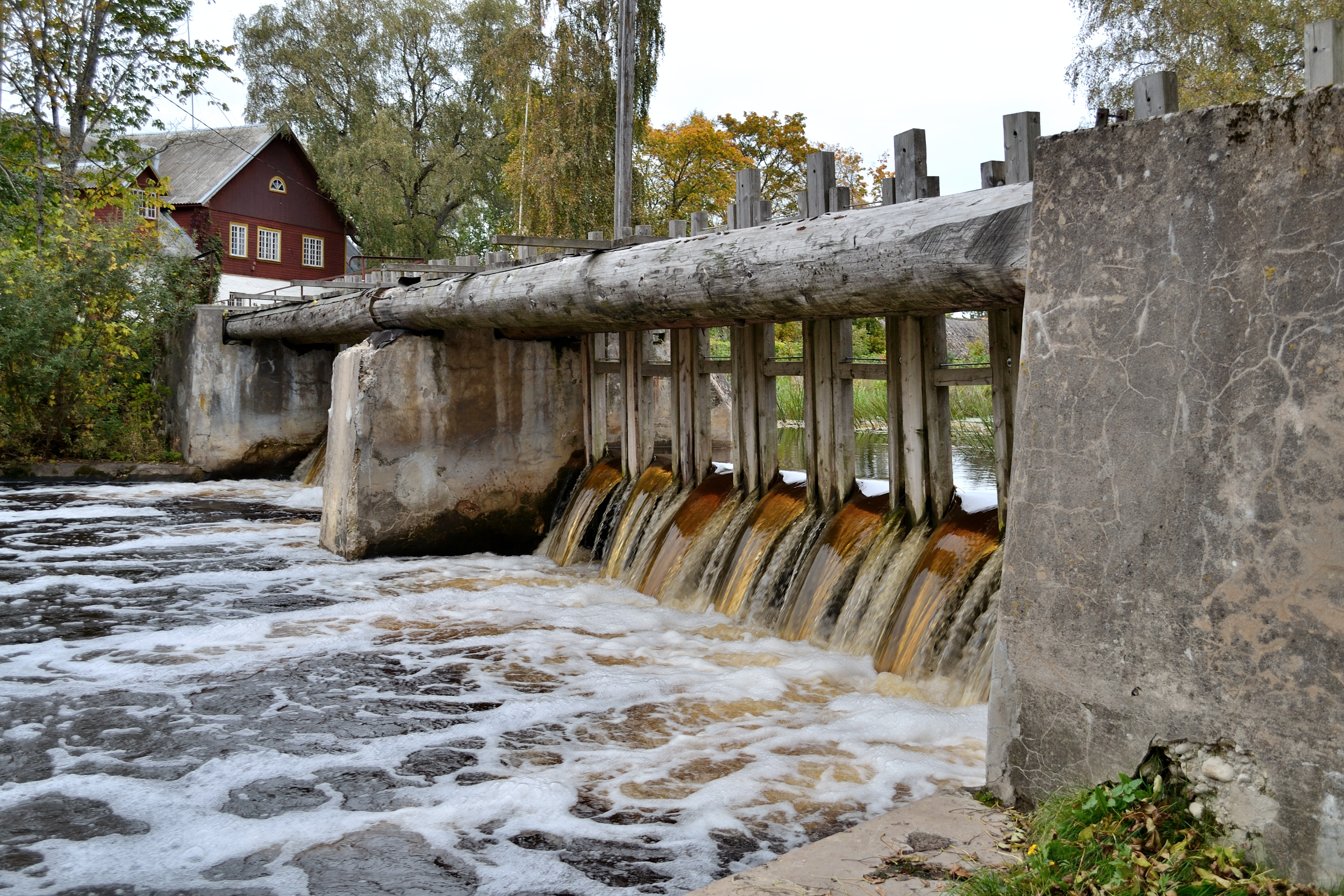 Kabala manor water-mill dam on Vigala river. Kabala village, Rapla County.